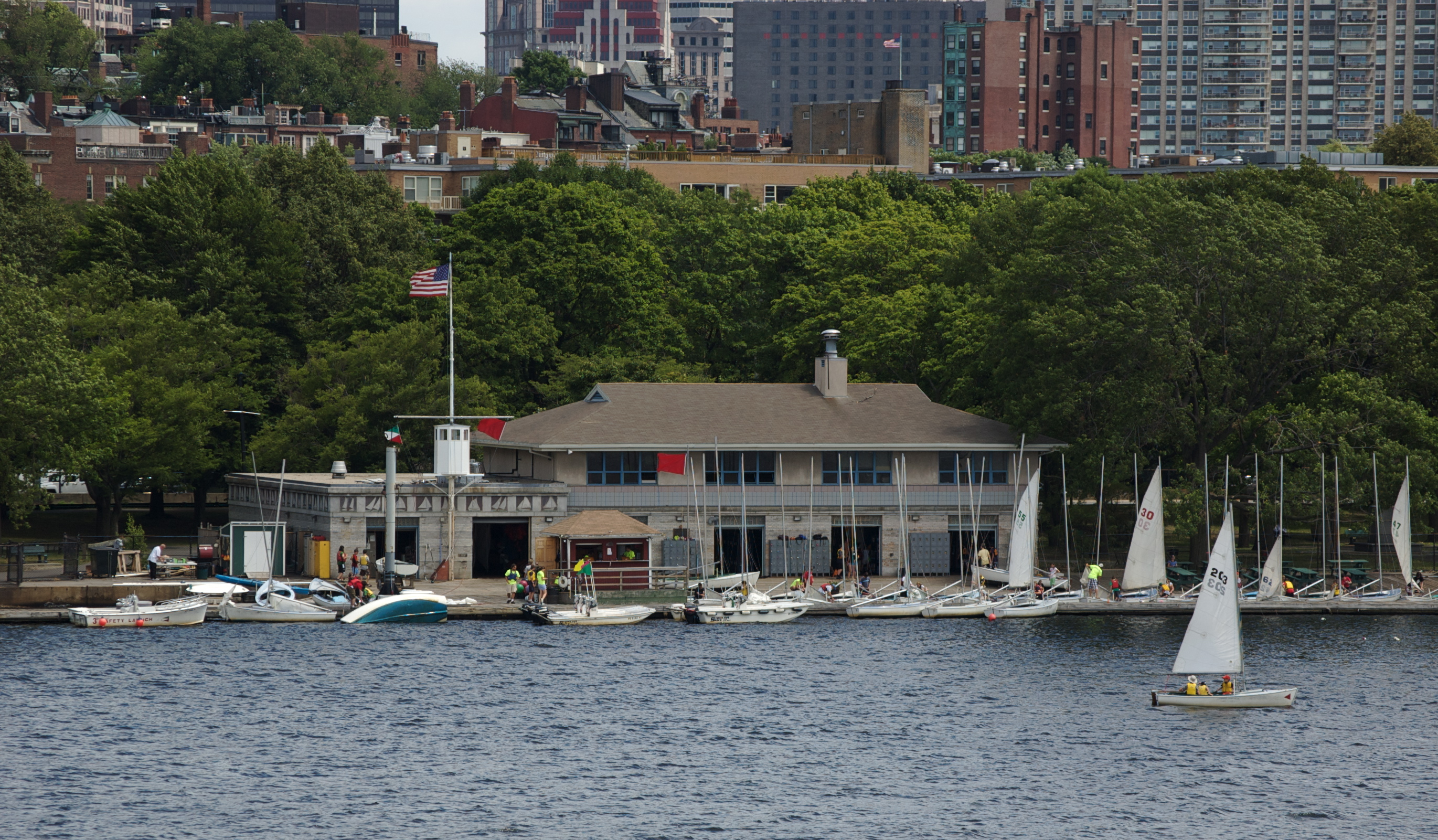 The Community Boating, Inc clubhouse on the Charles River in Boston, Massachusetts.